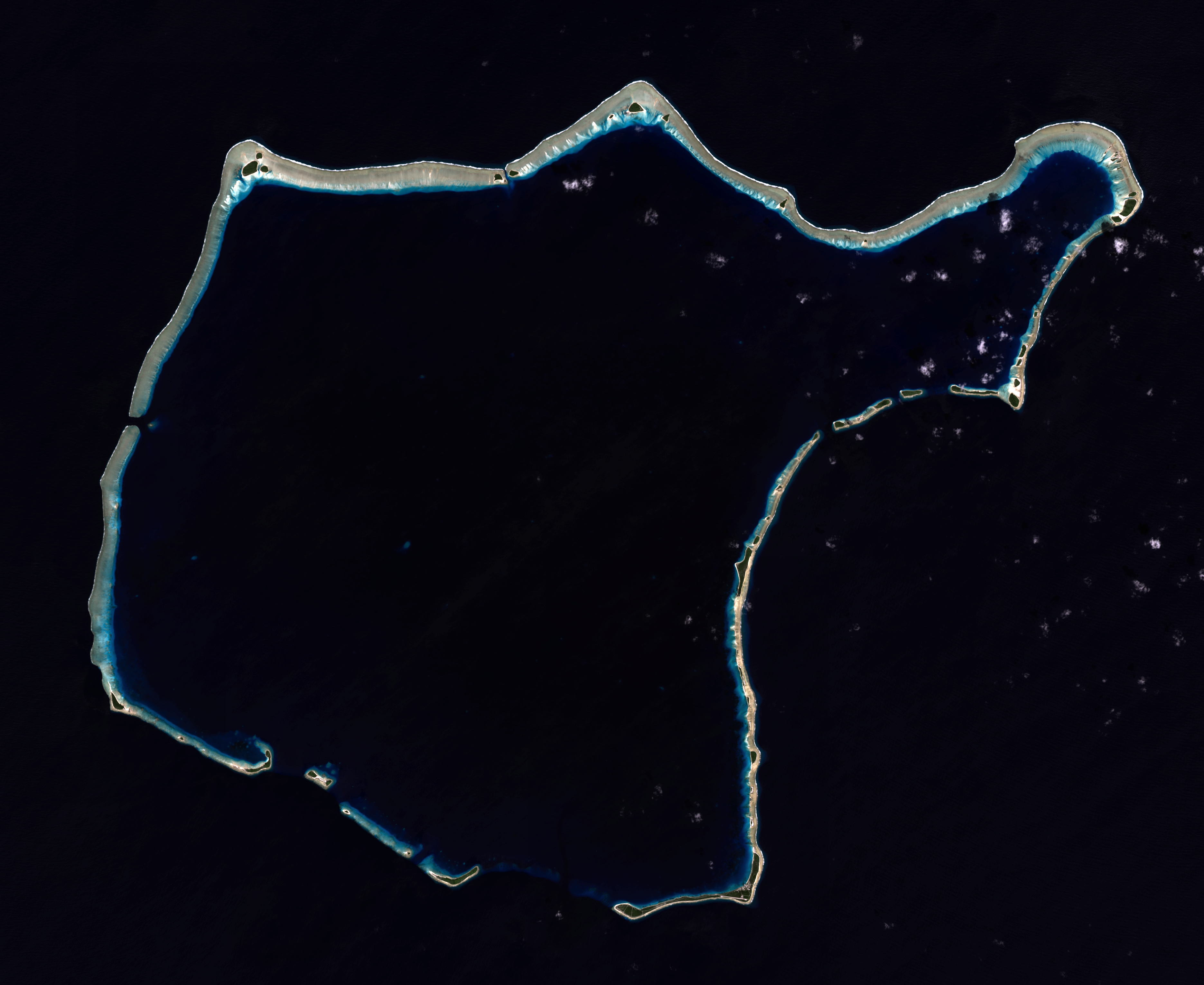 Composite "true color" multispectral satellite image of Rongelap Atoll. NASA Landsat 8 OLI bands used were 4 (red), 3 (green), 2 (blue). Pan-sharpened with band 8. Manual color balance. Projection: UTM (zone 58), WGS84. Imagery courtesy NASA/USGS. (note: atmospheric haze is present and could not be fully removed)